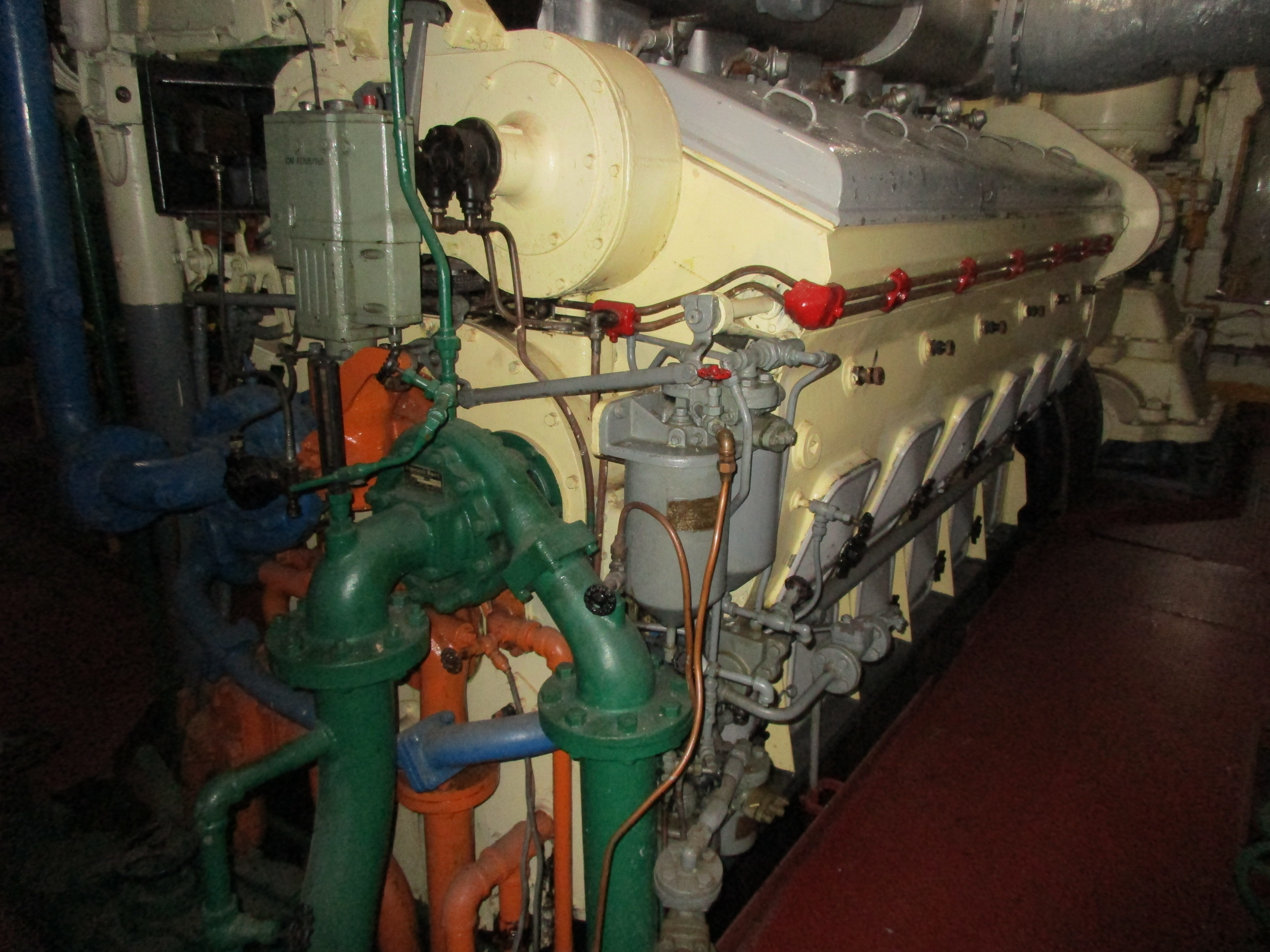 12 cylinder GM EMD diesel engine in LST393